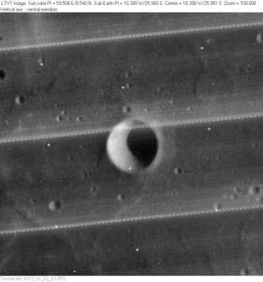 Lippershey lunar crater - Lunar Orbiter IV image LO-IV-113H